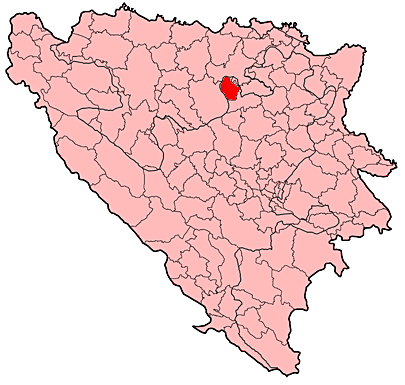 Location of Tešanj municipality in Bosnia and Herzegovina.